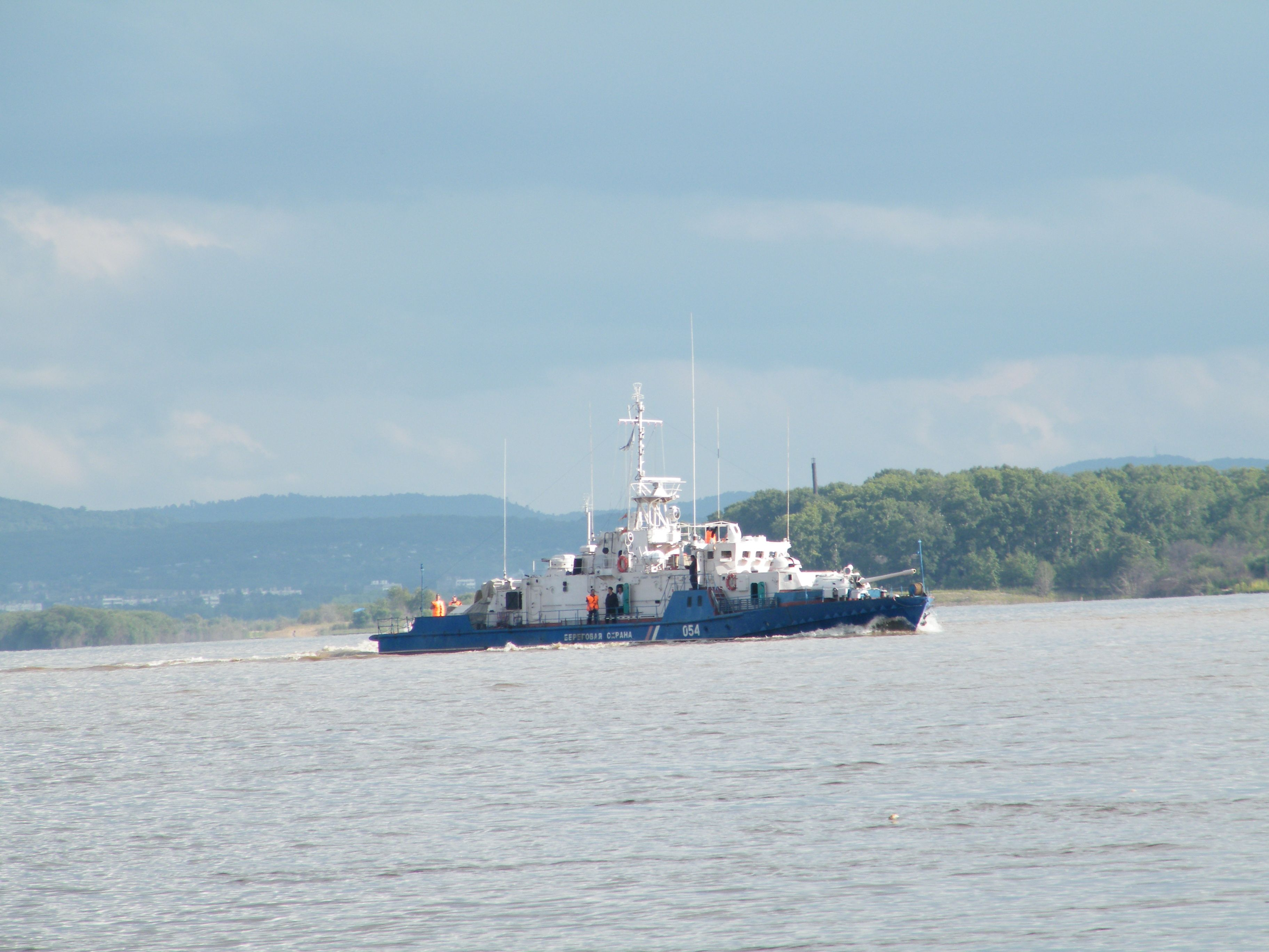 Amur Military Flotilla